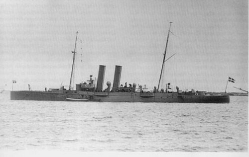 A picture of the Swedish torpedocruiser HMS Örnen.